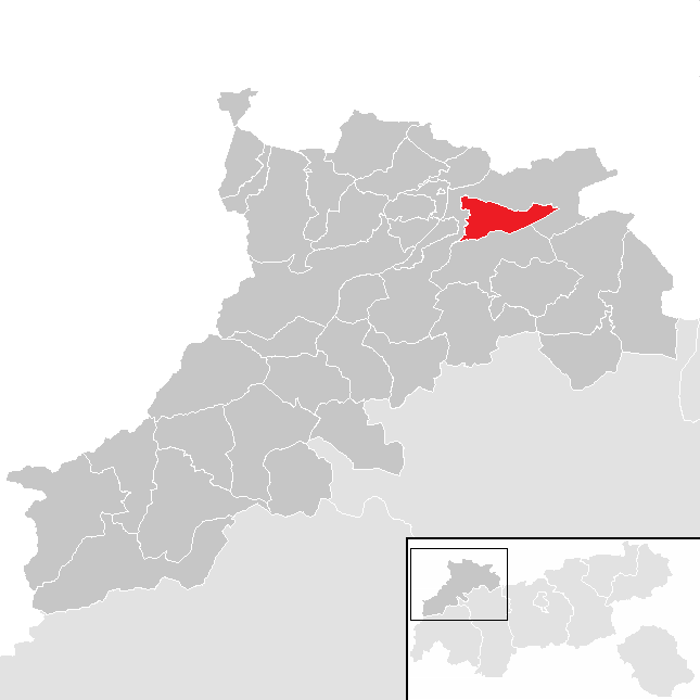 District Reutte